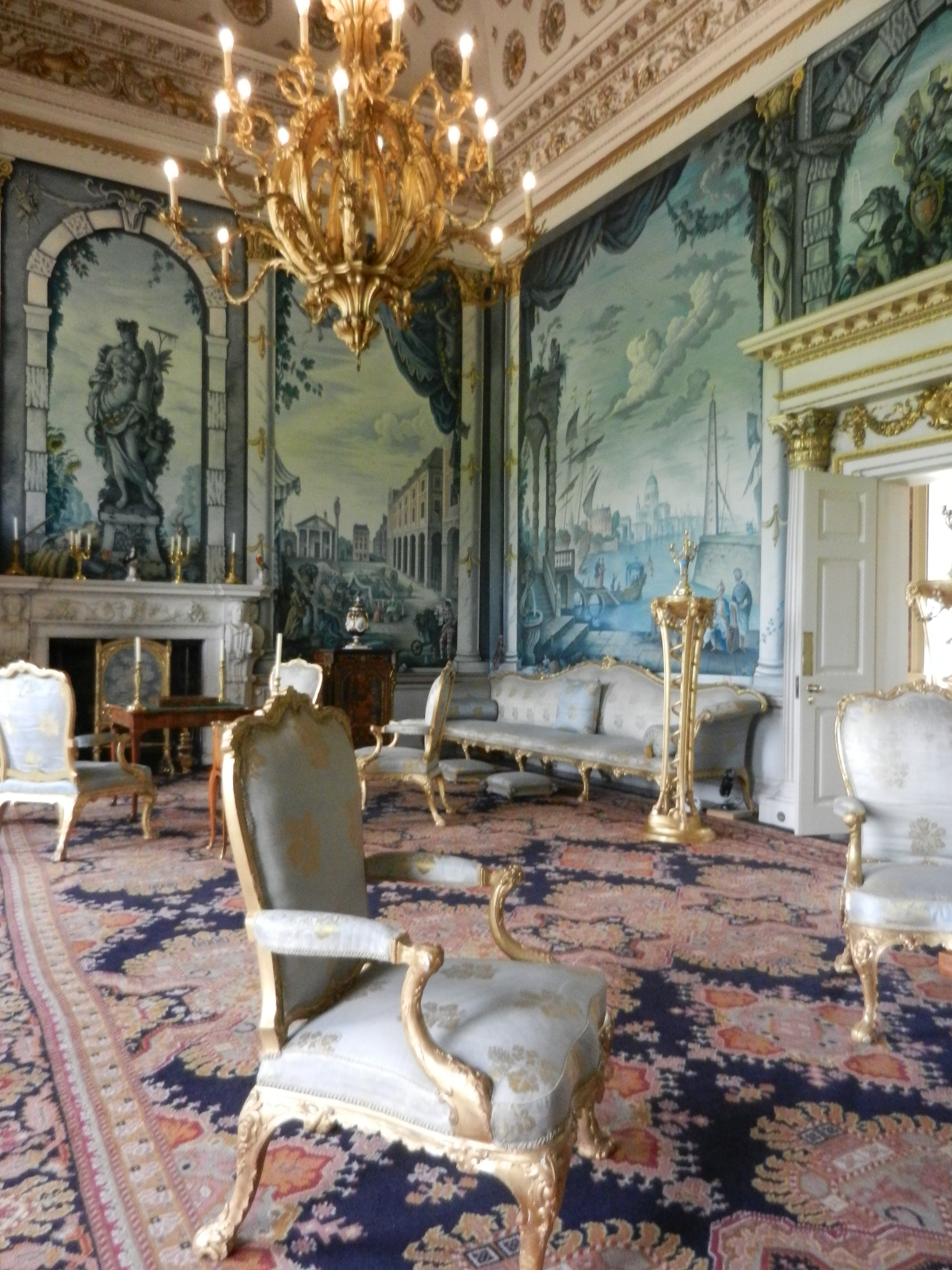 Mansion and Park Woburn Abbey